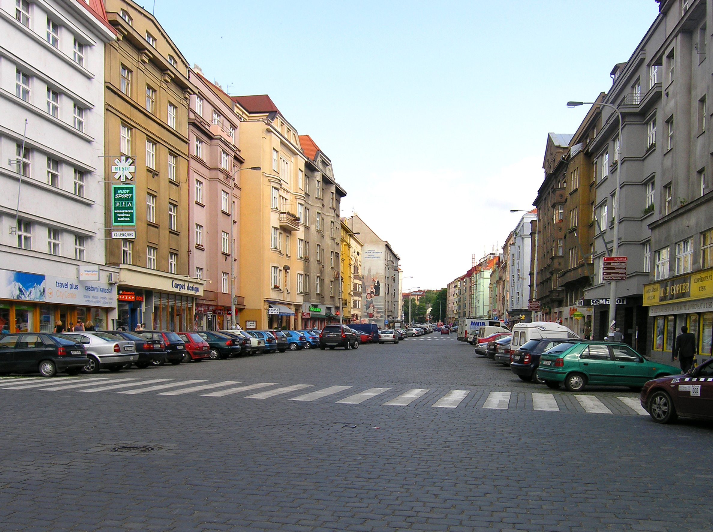 Dejvická street at Dejvice, Prague